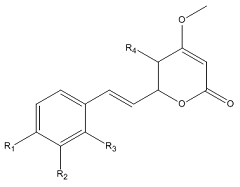 The structure of the third class of kavalactones, to be used on the Kavalactones page. Drawn in ChemDraw 10.0 by Yidele, July 2007.